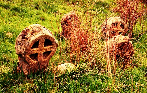 Christian Crosses Garlo Village